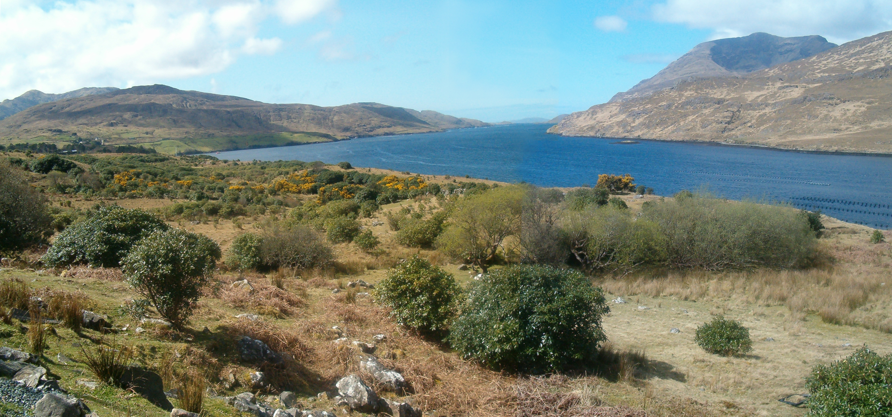 Killary Harbour, county Galway and county Mayo, Ireland